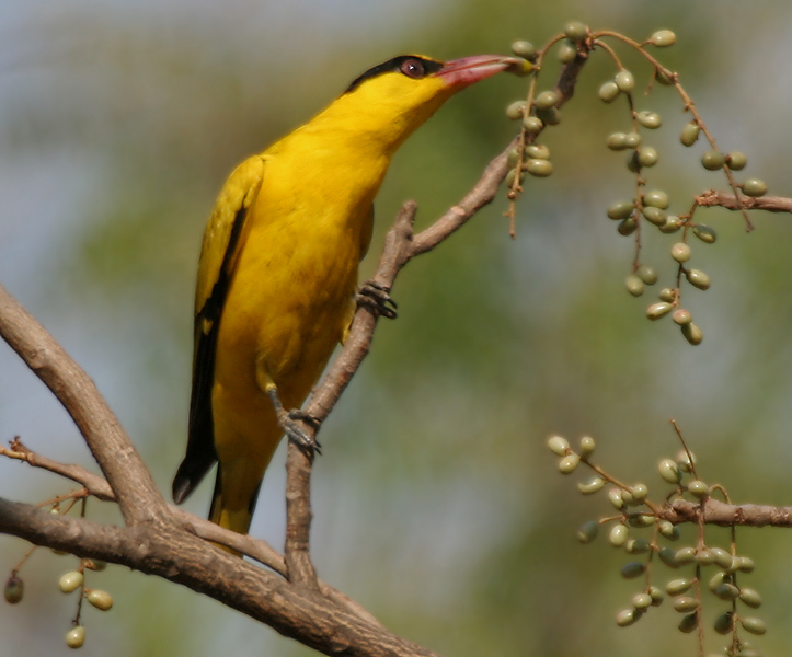 Black-naped Oriole Oriolus chinensis on Lannea coromandelica i.e. Wodier Tree, Moi, GURJAN, Jhingan, Shembat/ Shemat, woddiya maram, Indian ash tree, moya, jia, jiola, goddana-mara, mavedi, mohin, godda, gumpina, kuratige, udimara, moi, kaarilav, kaladam, karas, karayam, otiyan-maram, uthi, mendashingi, shemat, shimati, shinti, hallunde, indramai, ajashringi, jhingini, oti or ajasrngi at Mahavir Harina Vanasthali National Park, Hyderabad, India.